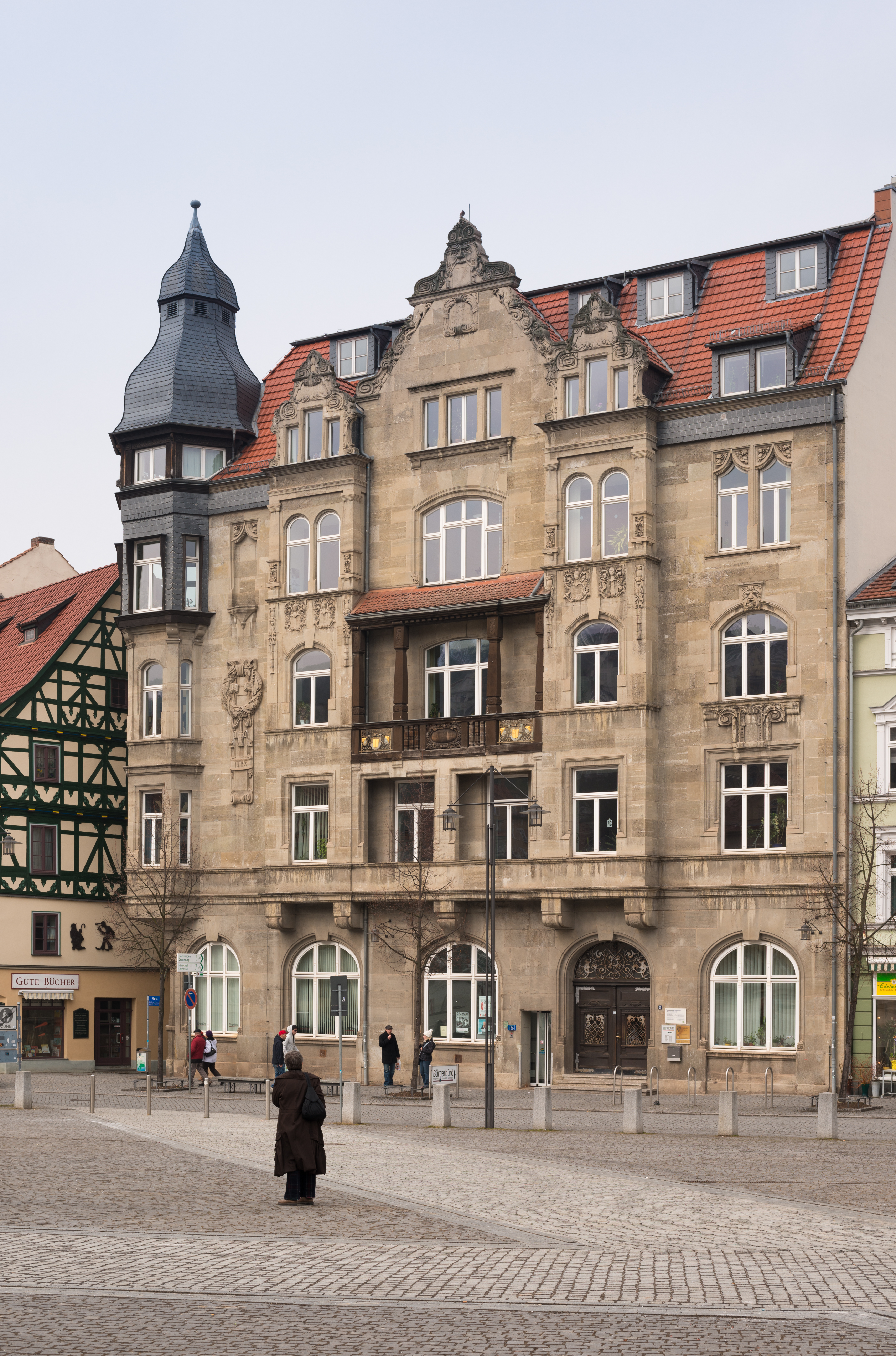 Citizens' Advice Bureau near market place, Eisenach, Thuringia, Germany.